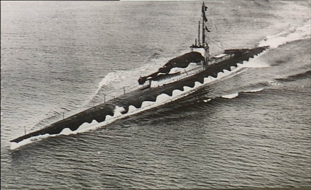 AWM caption : "Aerial view of the Royal Navy M Class submarine M1 heading out to sea. Note the 12 inch gun mounted forward of the conning tower and the distinctive camouflage scheme."